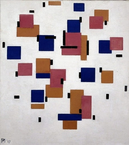 Compositie in kleur B